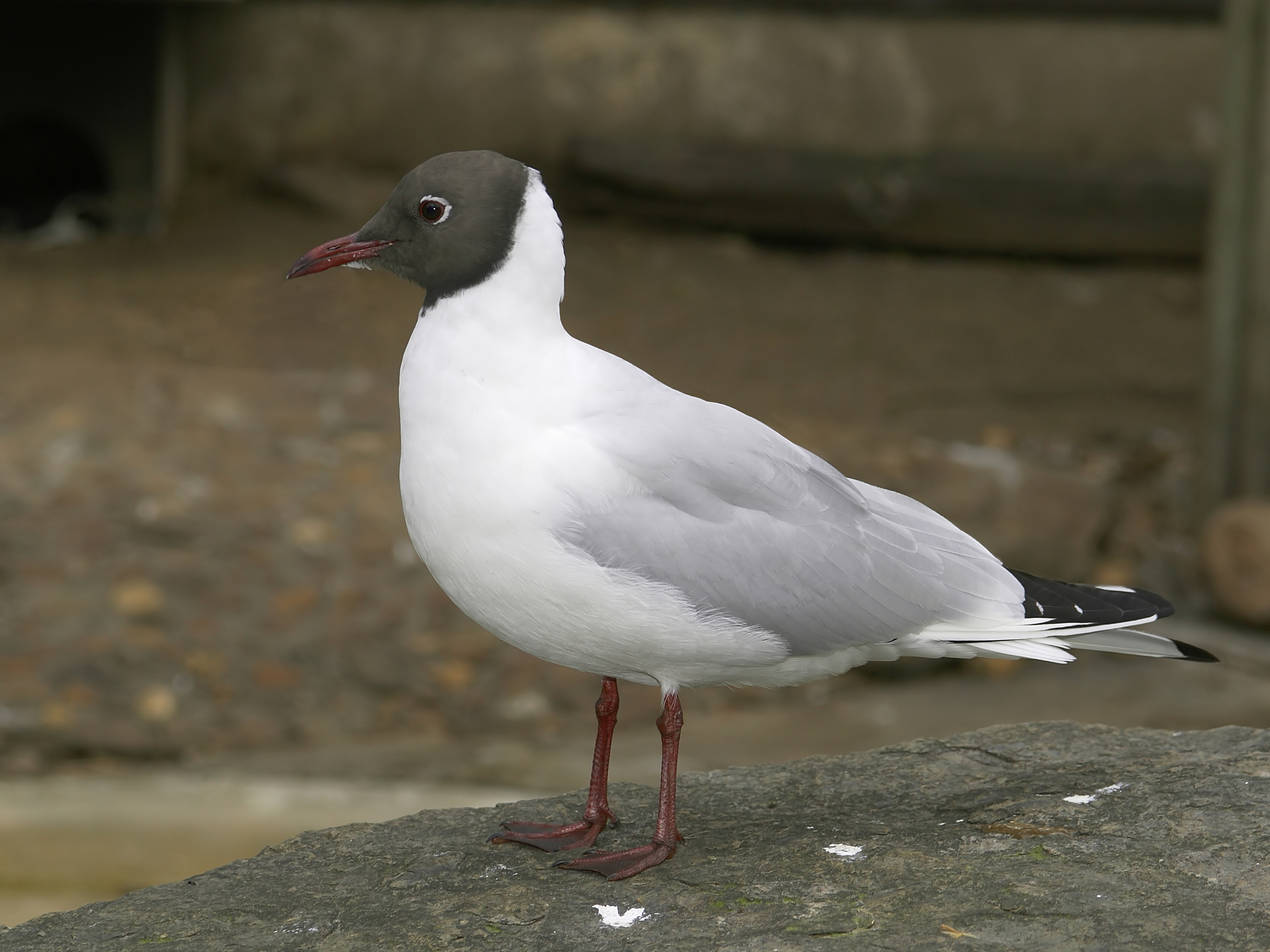 Black-headed gull at but not in the Antwerp Zoo, Belgium.